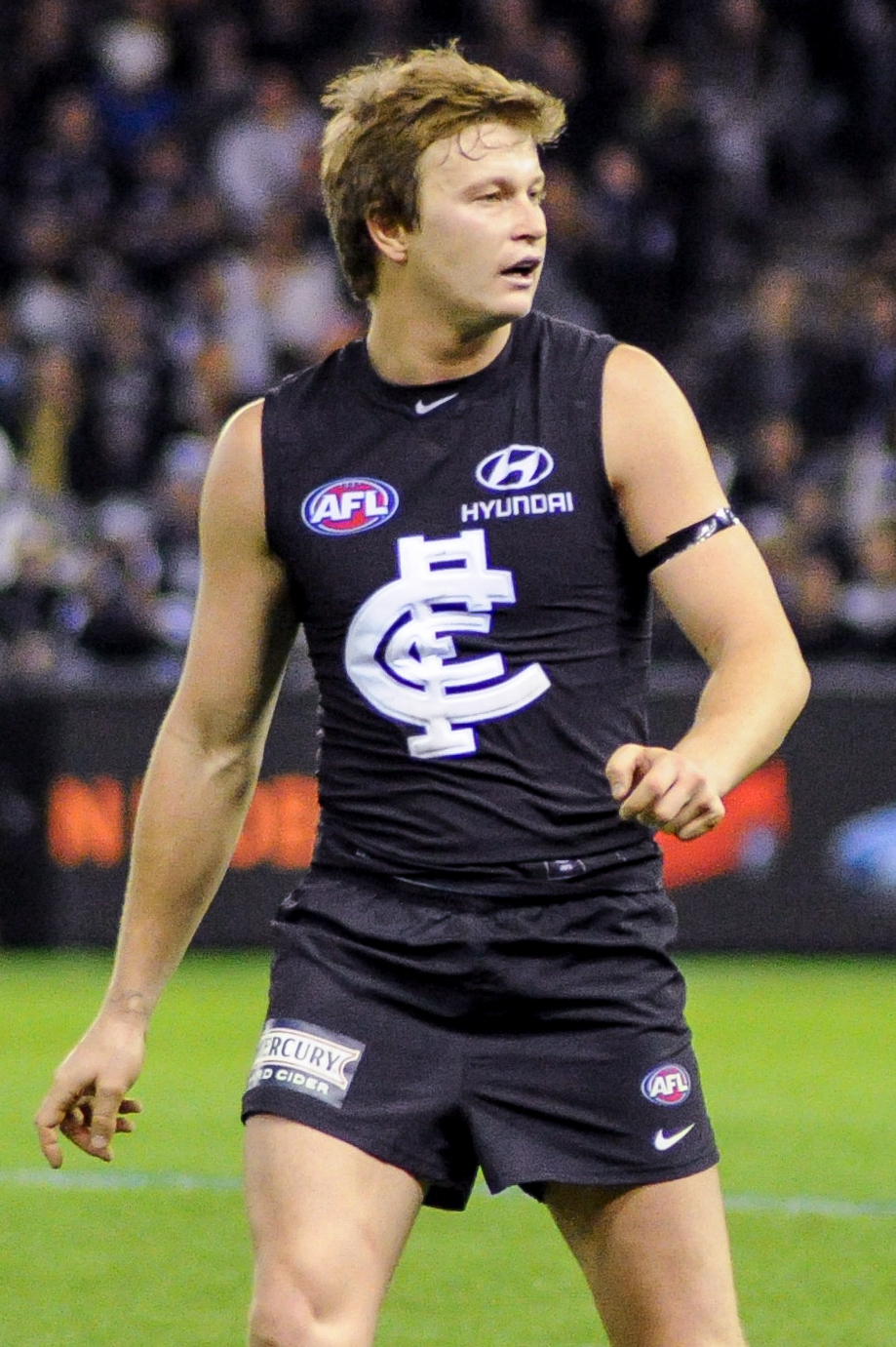 Liam Sumner during the AFL round twelve match between Carlton and Greater Western Sydney on 11 June 2017 at Etihad Stadium in Melbourne, Victoria.